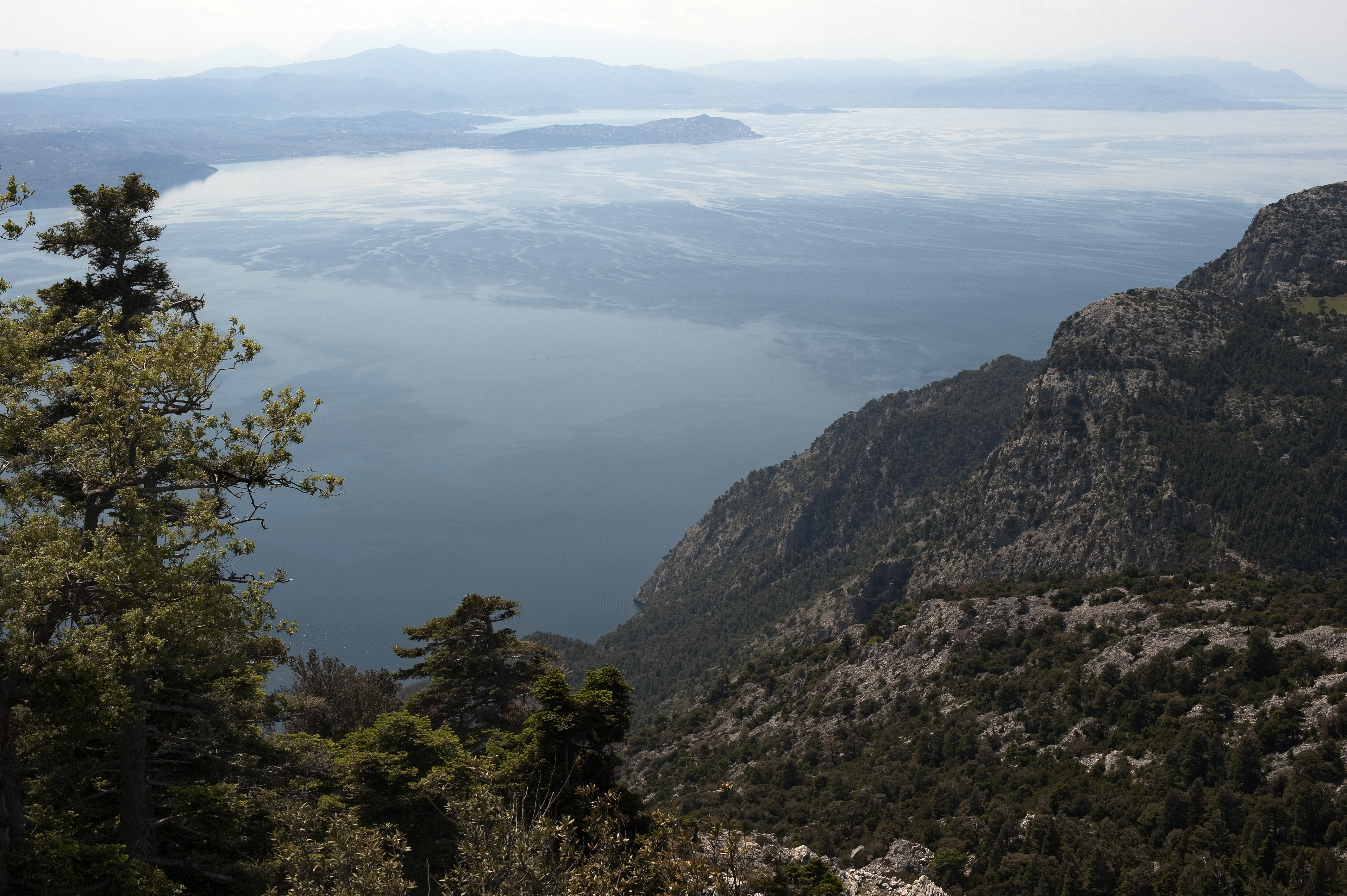 Kantili mountain, Evia island, Greece.